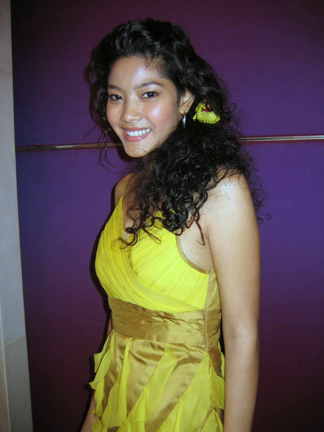 Thai actress Napakpapha Nakprasitte at the awards banquet for the 2007 Bangkok International Film Festival at SF World in CentralWorld, Bangkok.